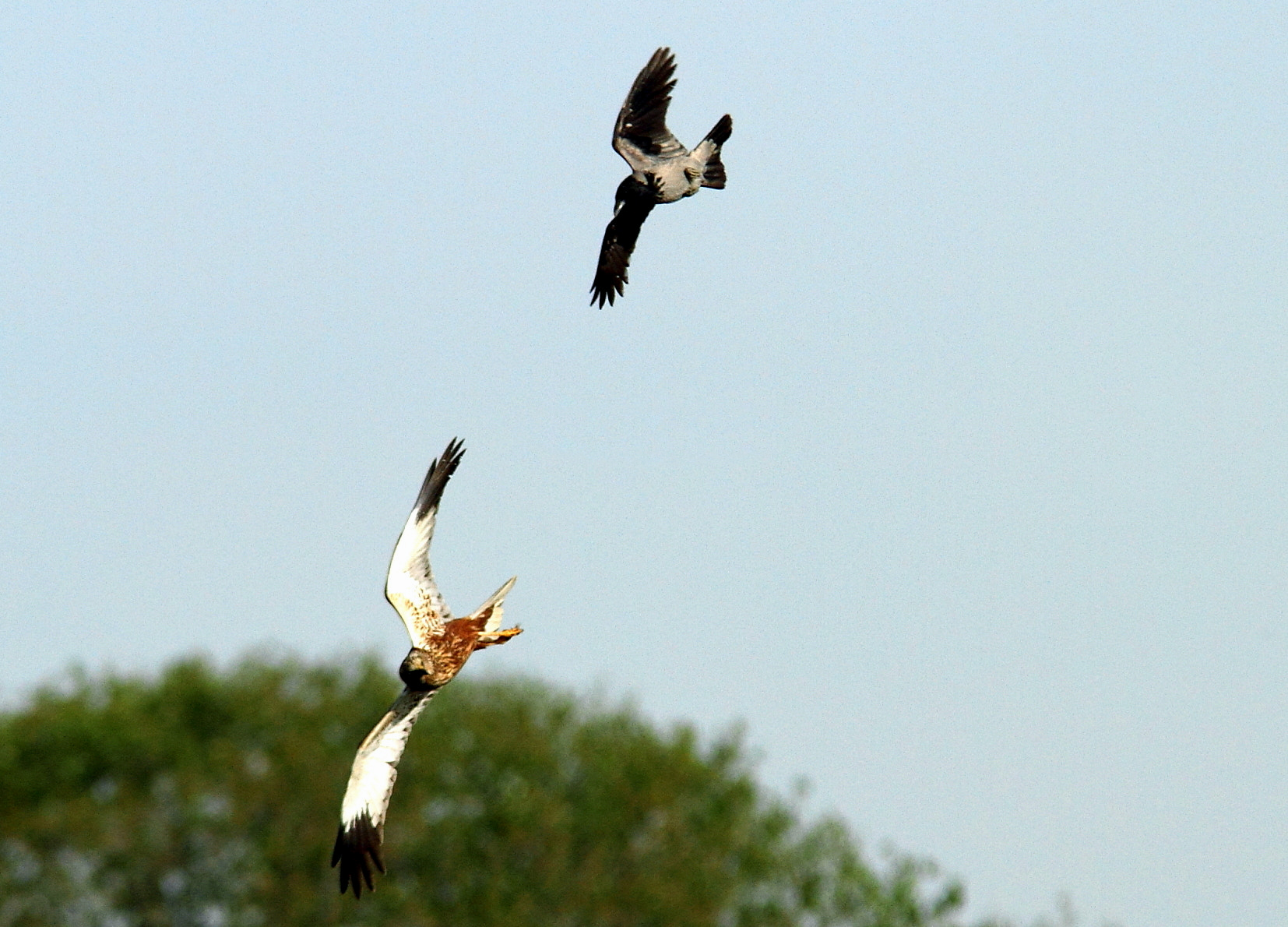 500px provided description: Race [#birds ,#nature ,#animals ,#photo ,#race ,#wildlife ,#amazing ,#popular]